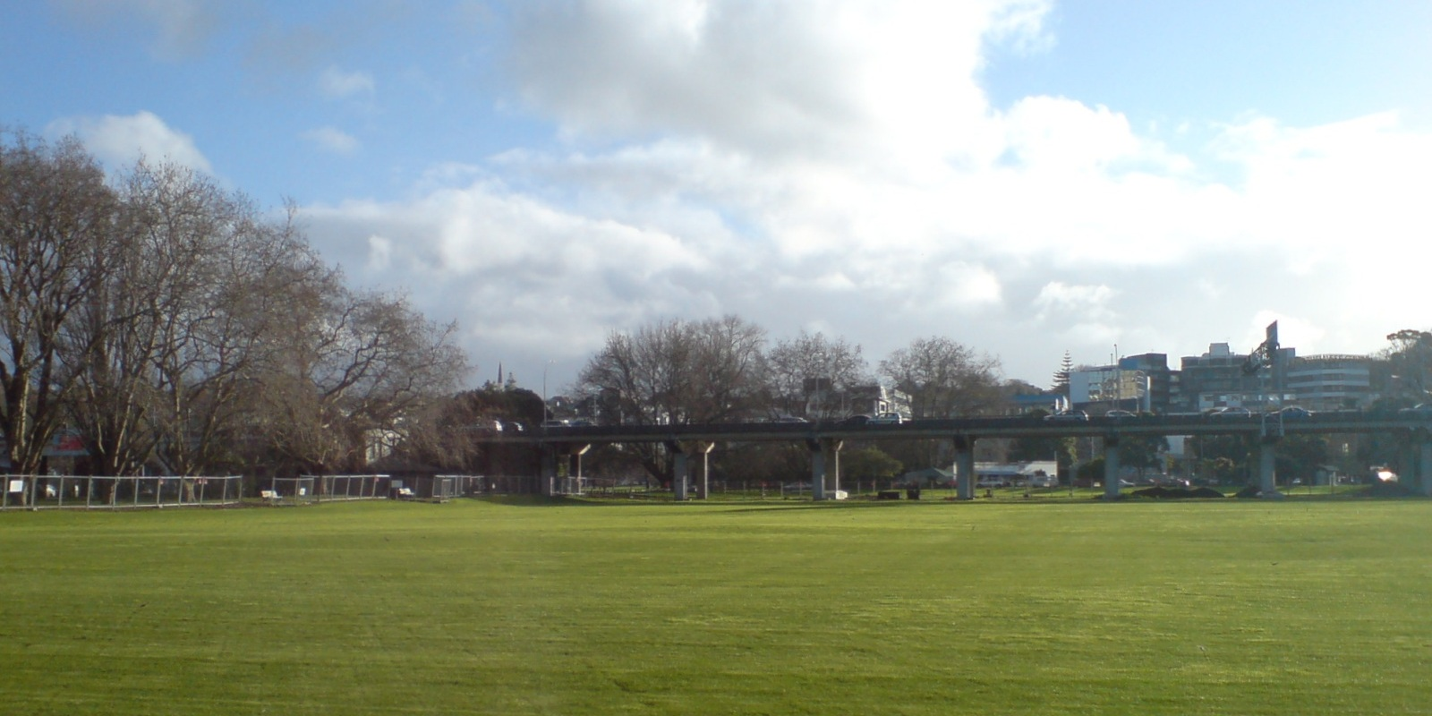 Victoria Park Viaduct in Auckland City, New Zealand. Seen from Victoria Park, looking westwards.